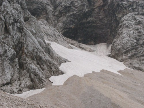 Photo made in July 2008 when visiting south-eastern most glacier in the Alps.